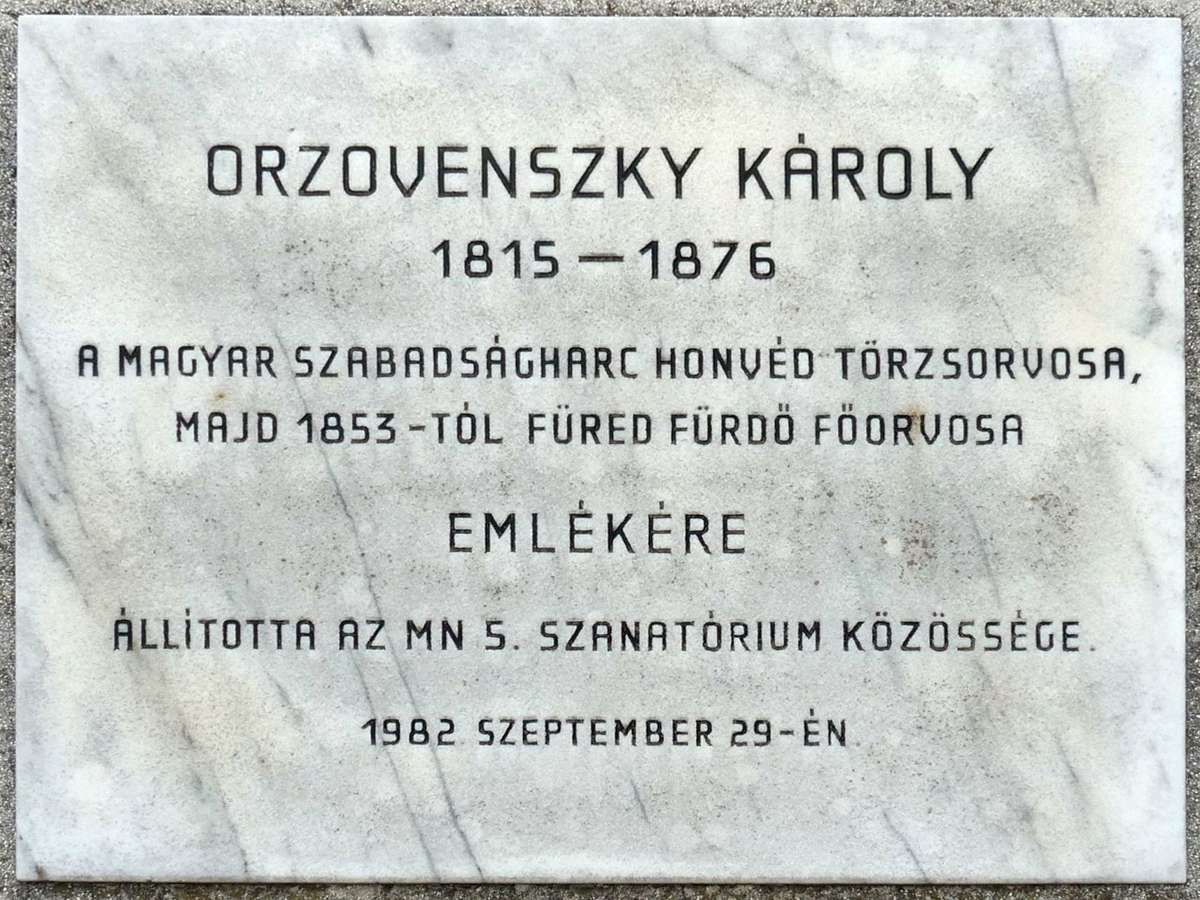 Commemorative plaque to Mr. Károly Orzovenszky (1815-1876) Hungarian doctor surgeon, medical officer during the war of independence in 1848-49 then senior doctor of the Spa in Balatonfüred from 1853. It is affixed to the main entrance of the Honved Hospital. (Balatonfüred, Szabadság Street Nr 5)